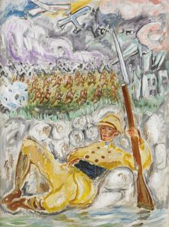 depicting Ivan Lönnberg (1891 – 1918) in the trenches of the first world war